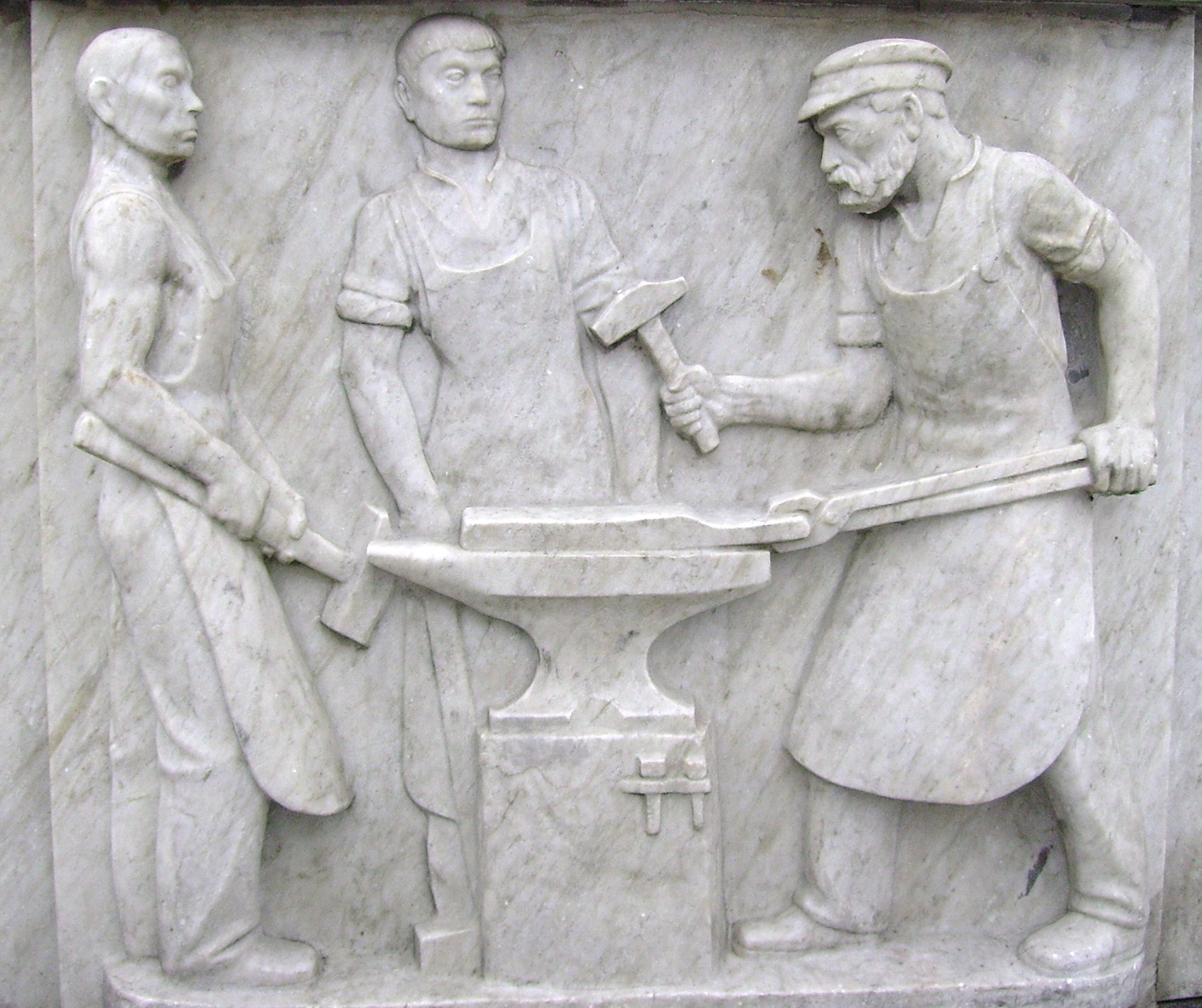 Picture of detail on monument Arbetets ära och glädje at the well on Fristadstorget, Eskilstuna, depicting blacksmiths. Relief by the Swedish sculptor Ivar Johnsson (1885-1970).